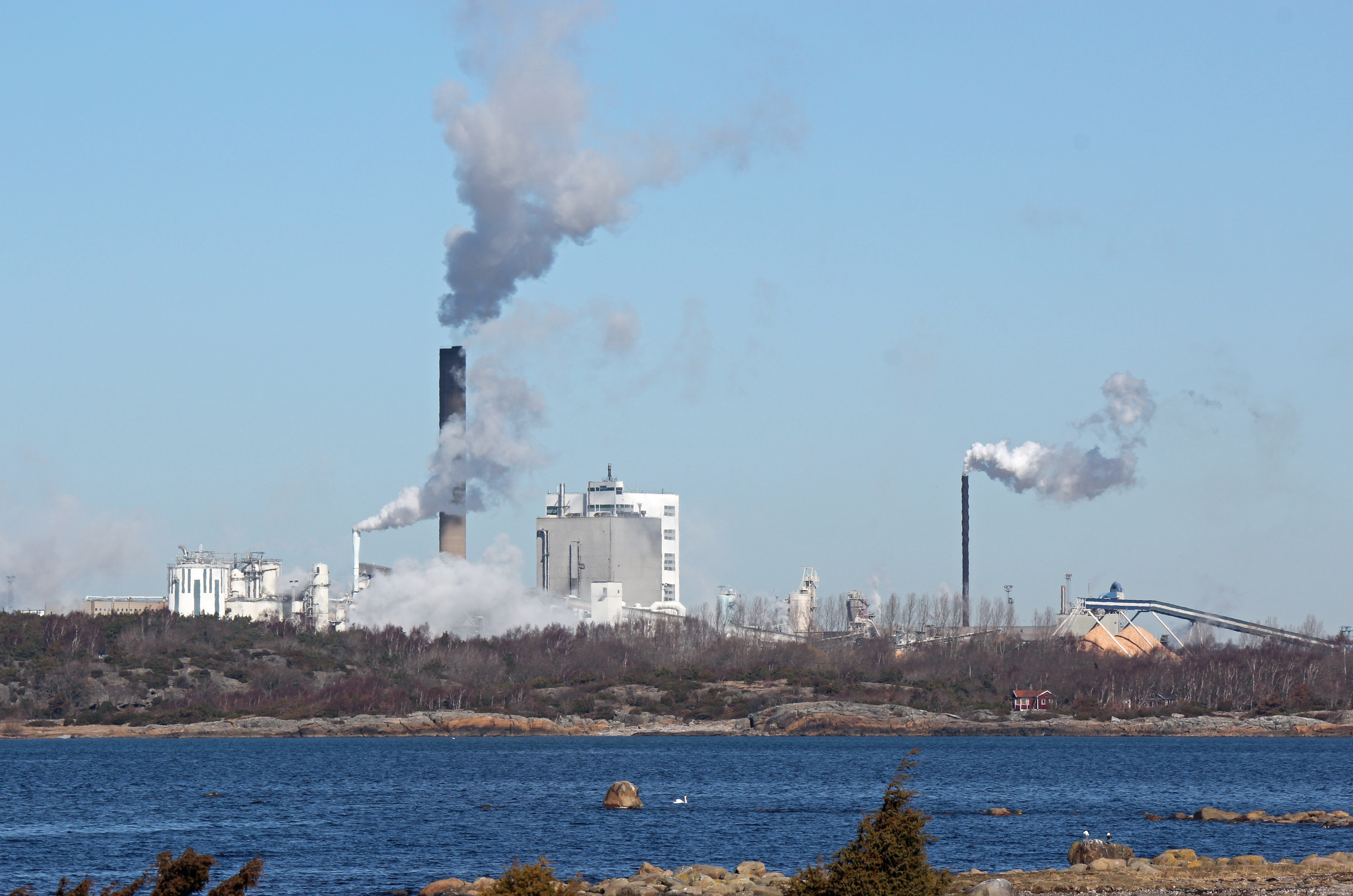 The kraft pulp mill Södra Cell Värö, more known as Värö bruk, in Halland, Sweden.